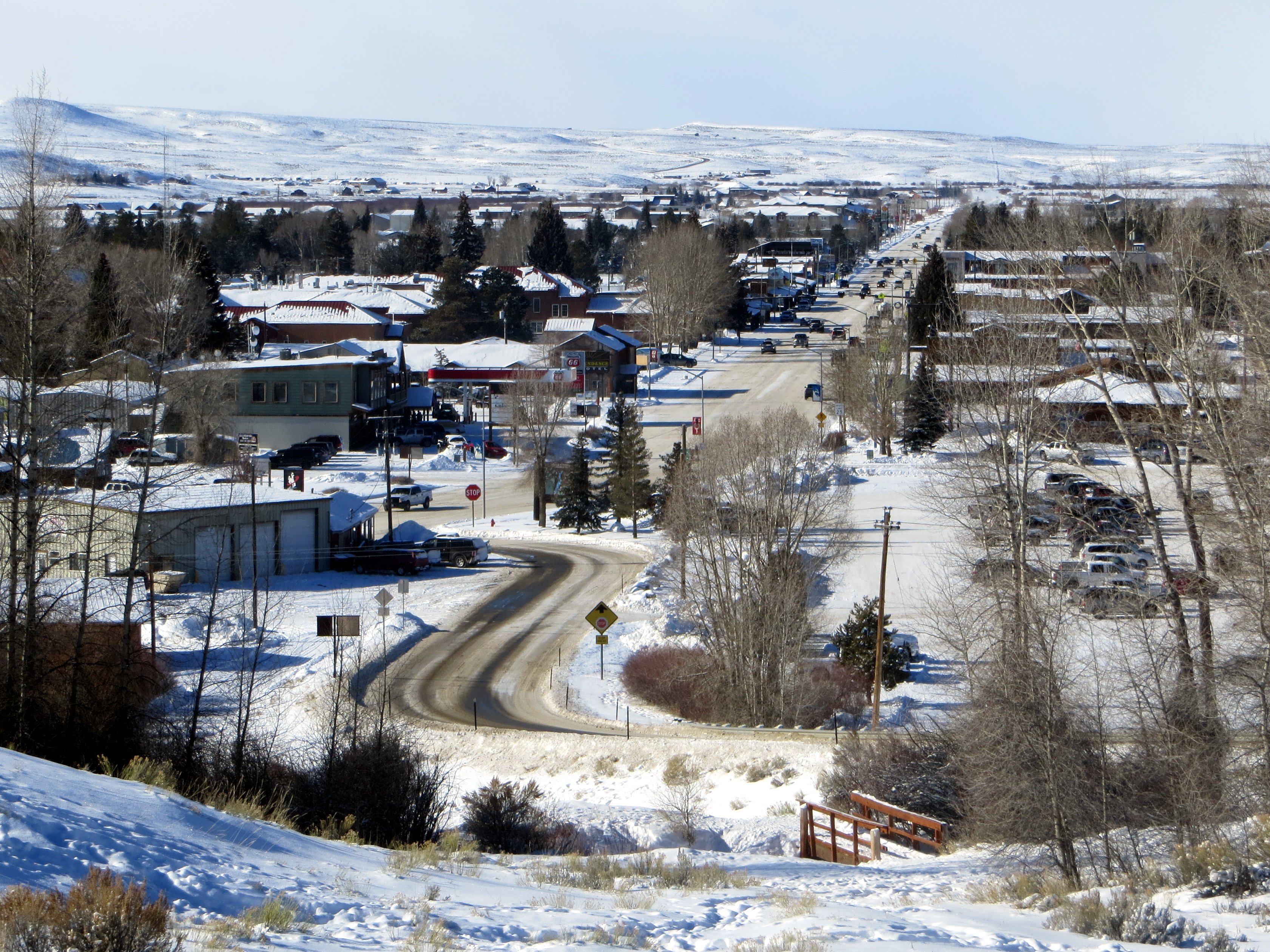 Pinedale Wyoming viewed from a hill on the east side during winter. The picture was taken at the end of December, 2016.